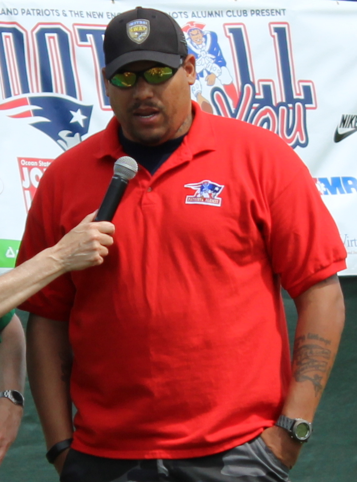 Chuck Wilson interviews Jermaine Wiggins in 2014 at Endicott College.